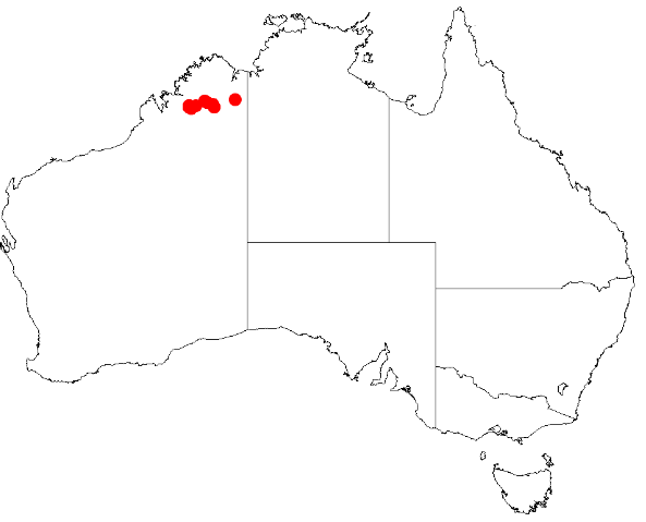 Acacia capillaris Occurrence data from Australasia Virtual Herbarium downloaded from on 8 December 2018